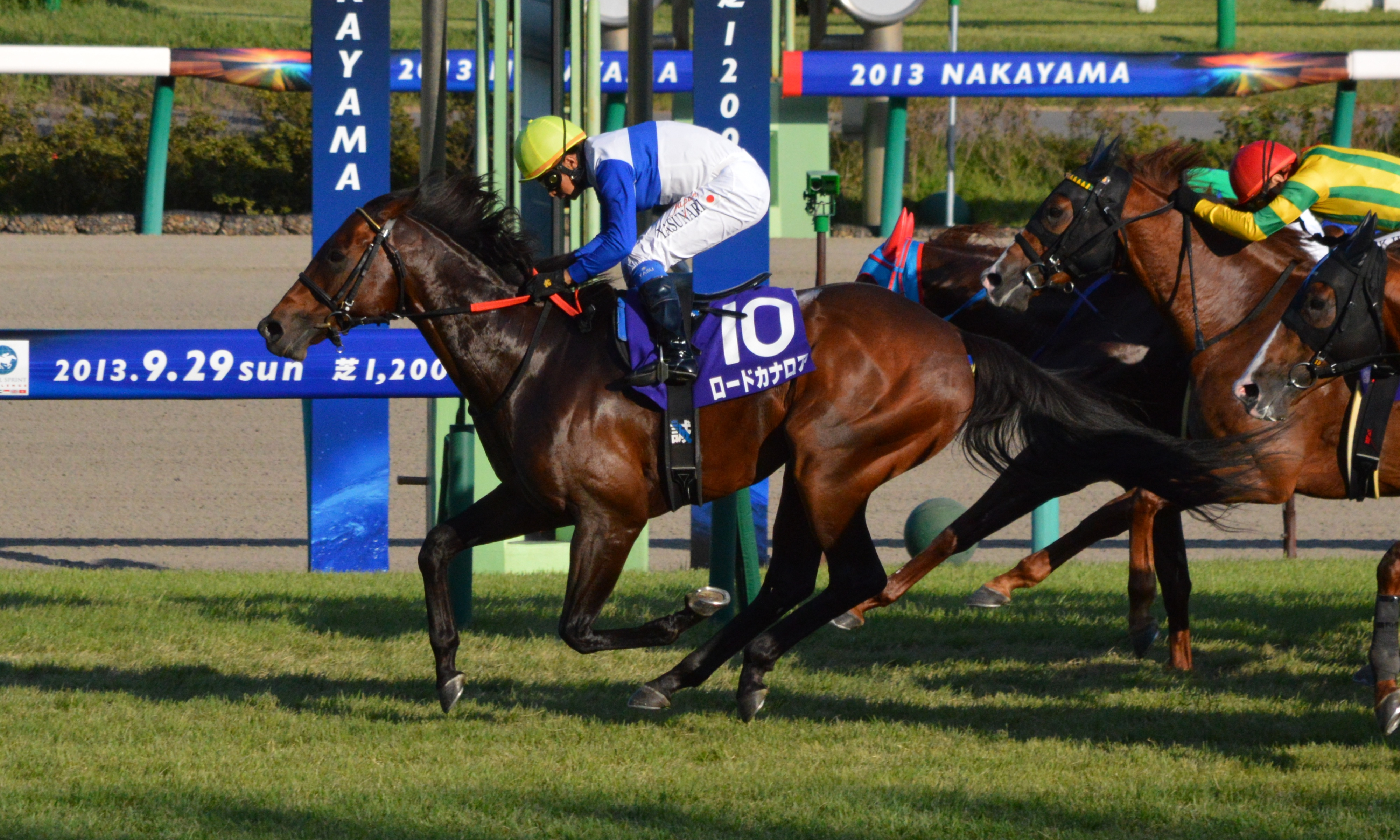 Japanese race horse Lord Kanaloa at Nakayama racecourse. Nakayama (JPN) 29 Sep 2013 Sprinters Stakes (Grade 1) (3yo+) (Turf) 6f Firm RankHorse NameOddsAgeWgtTrainerJockey1stLord Kanaloa (JPN)30/100FH59-0Takayuki YasudaYasunari Iwata2ndHakusan Moon (JPN)58/10C49-0Masato NishizonoManabu Sakai3rdMayano Ryujin (JPN)159/1H69-0Yasushi ShonoKenichi Ikezoe4th - 16th/omission